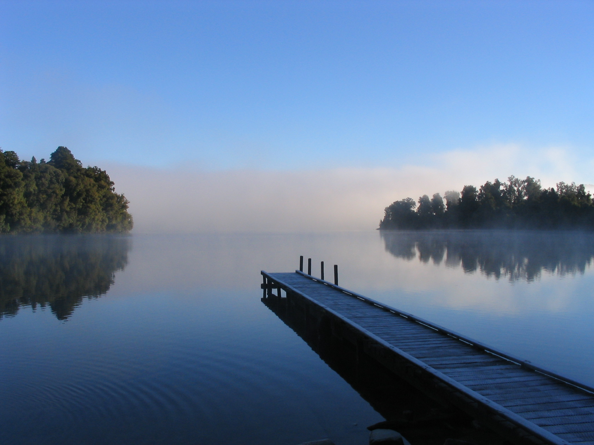 Morning mist on Lake Mapourika, New Zealand.